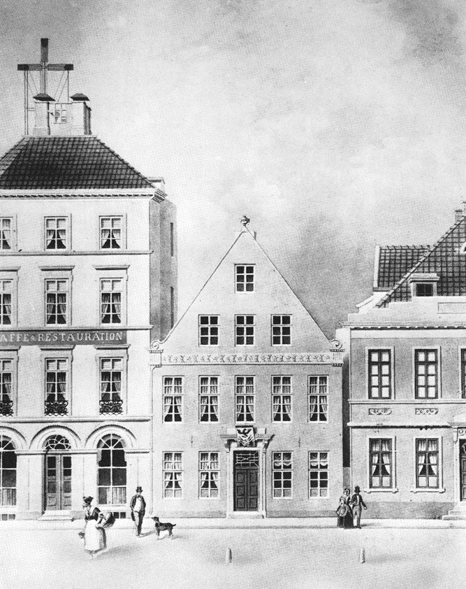 Eastside of the Domshof square around 1850 in Bremen (Germany) with the optical telegraph station on top of house no. 16 (later also called Rabe-Haus).